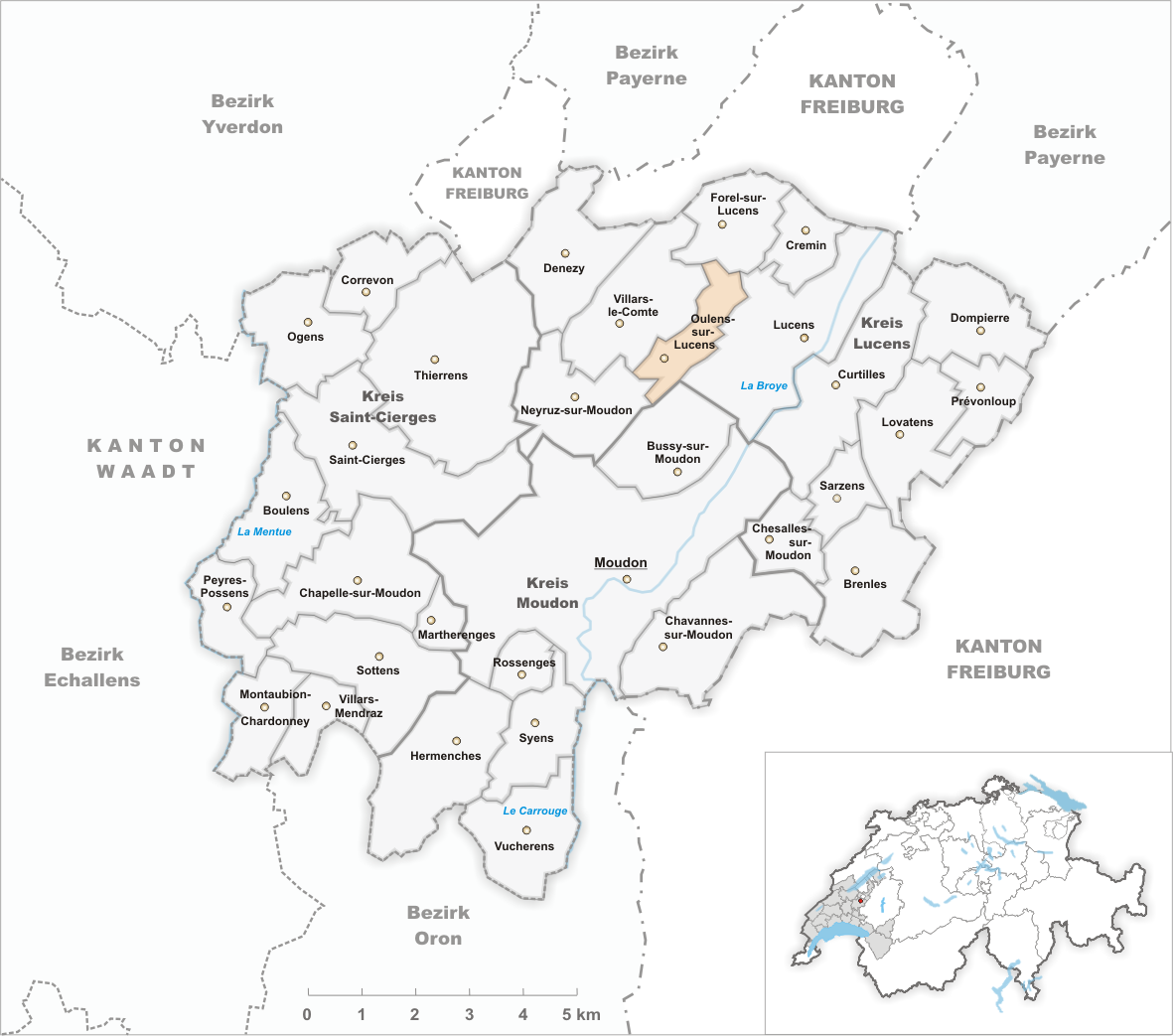 Municipality Oulens-sur-Lucens